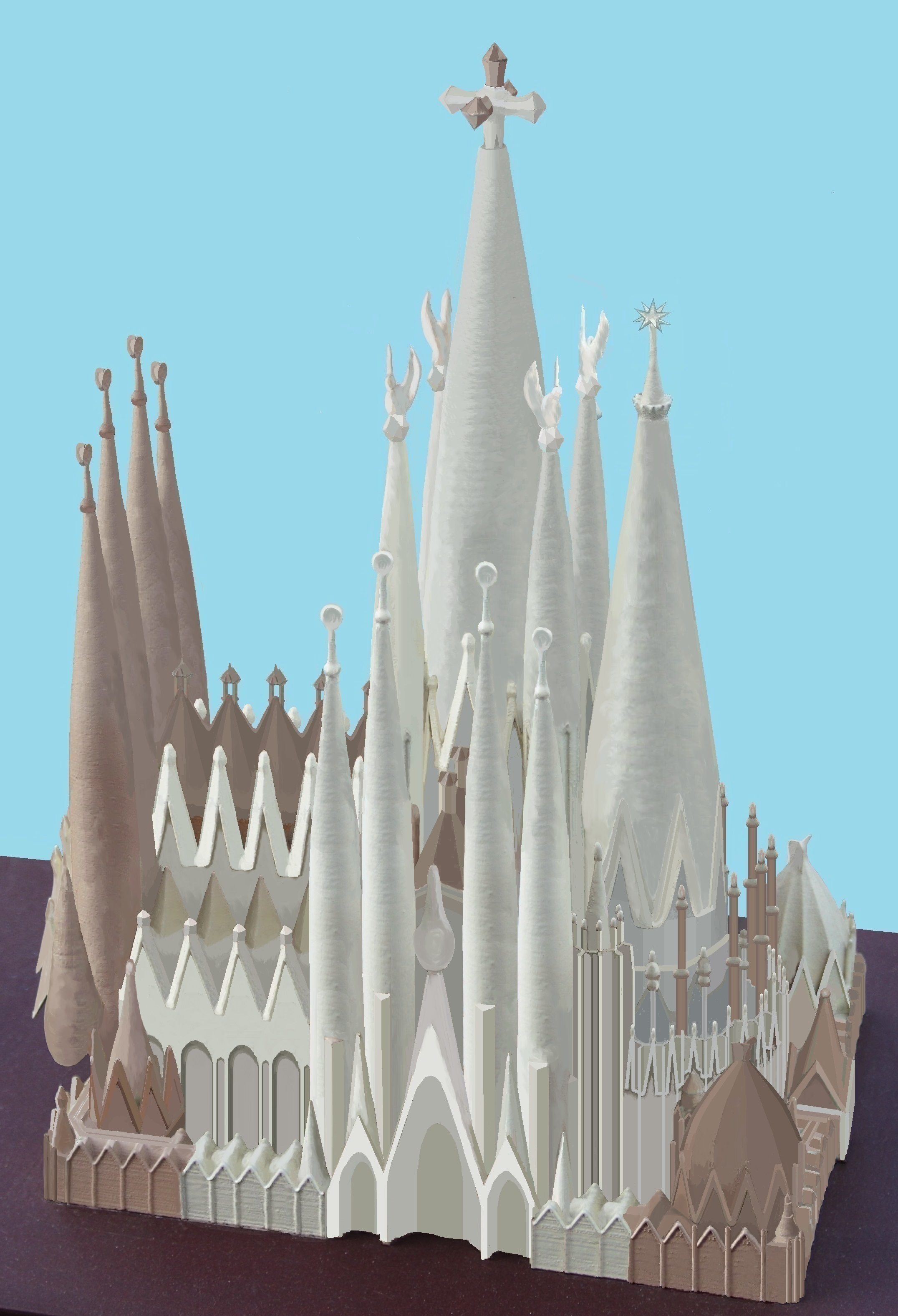 Sagrada Familia, brown = finished, white = still to be built (2020)